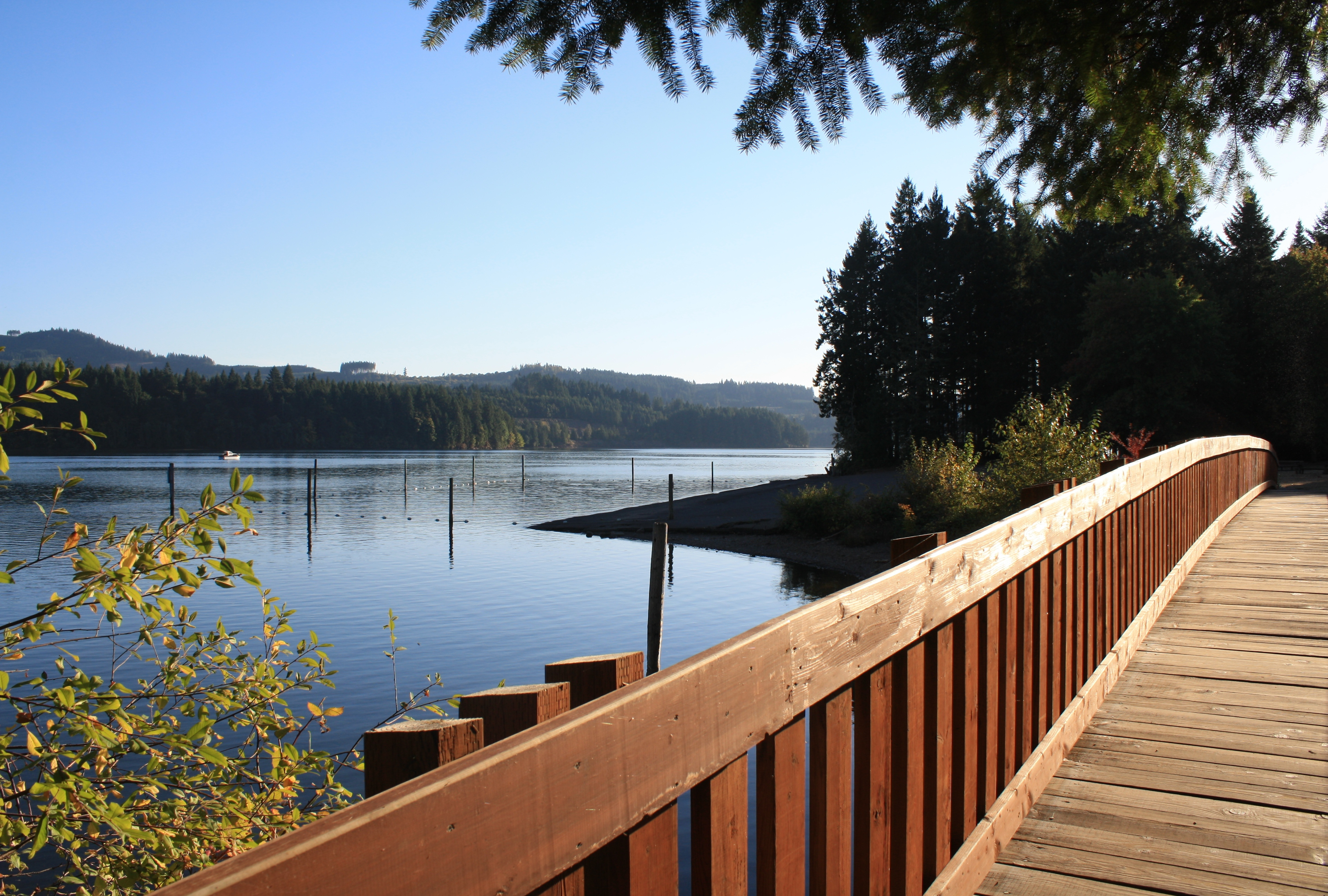 Lewis Creek Park along the north shore of Foster Reservoir near Sweet Home, Oregon